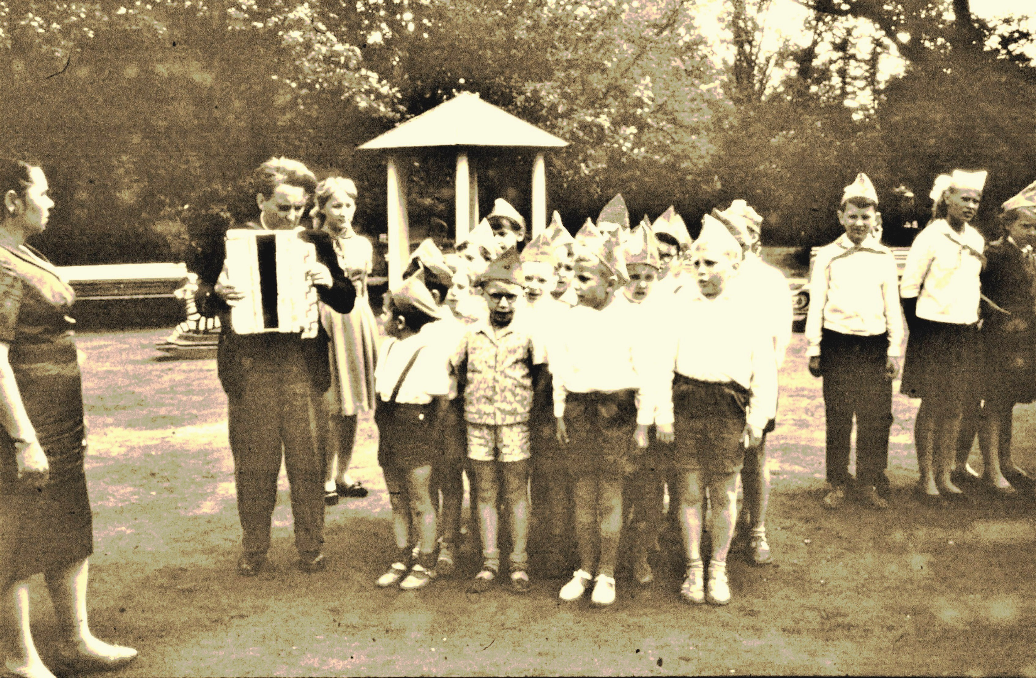 A group of Soviet young pioneers assembled to meet a foreign delegation , Summer 1965